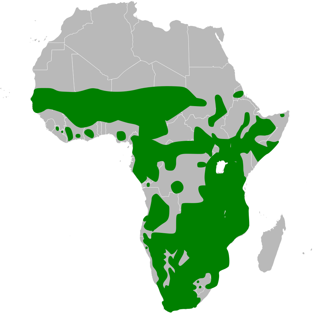 Anthoscopus distribution map; using BlankMap-Africa.svg, based on